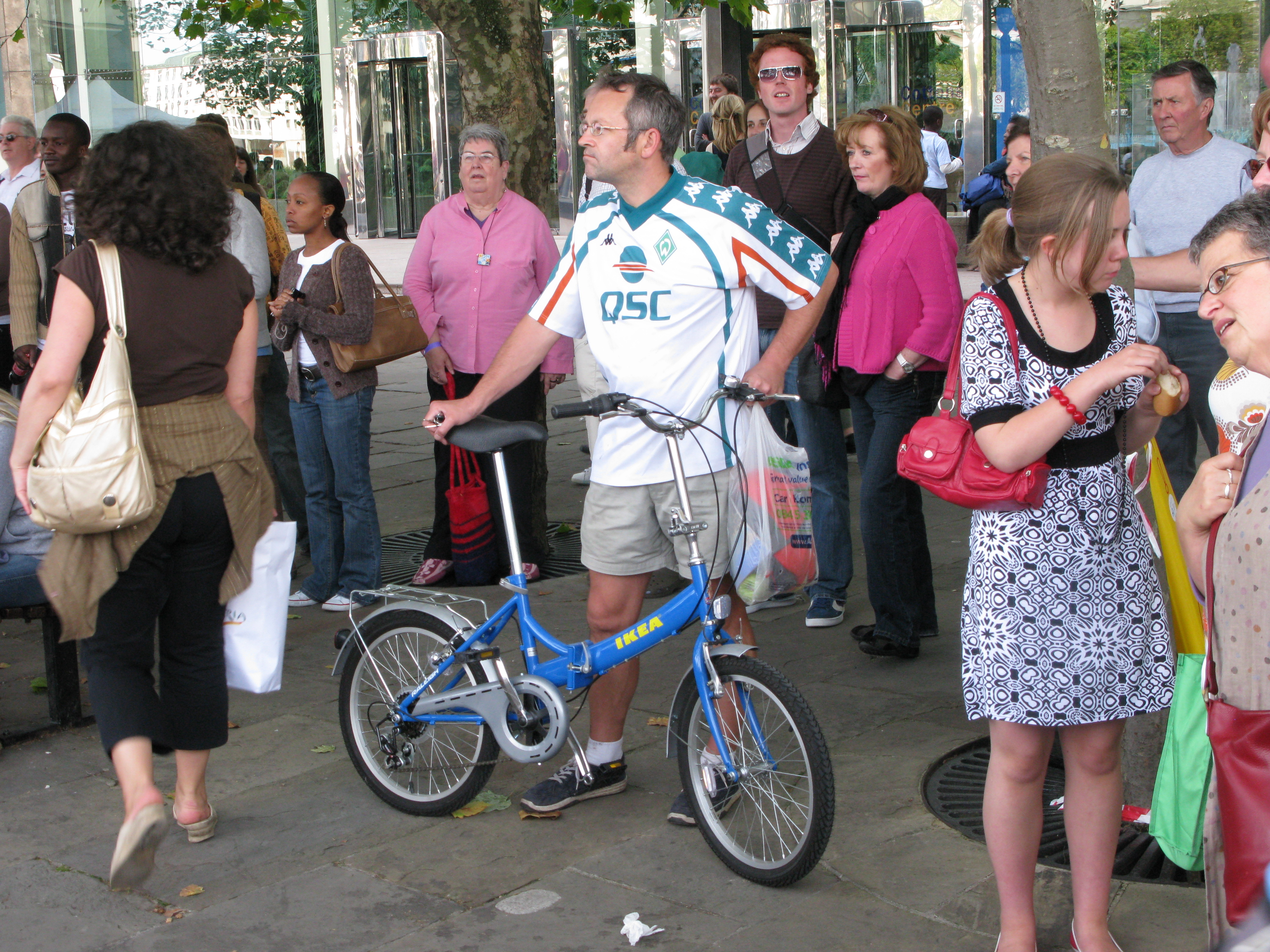 Ikea bike: one of thousands of blue folding bicycles given away to Ikea employees as a Christmas bonus.